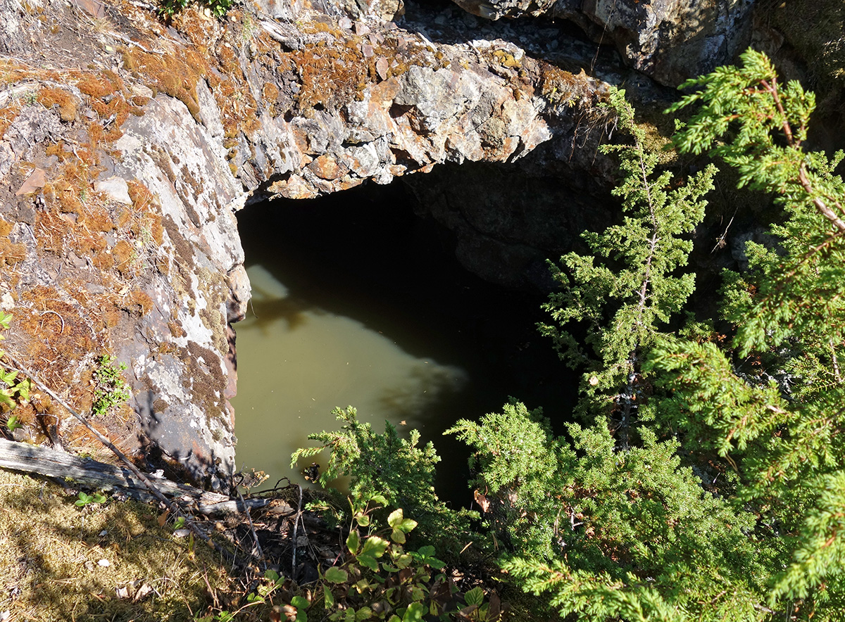 Pit from iron ore extraction on Mount Gruvberget, Bygdsiljum, Västerbotten, Sweden.